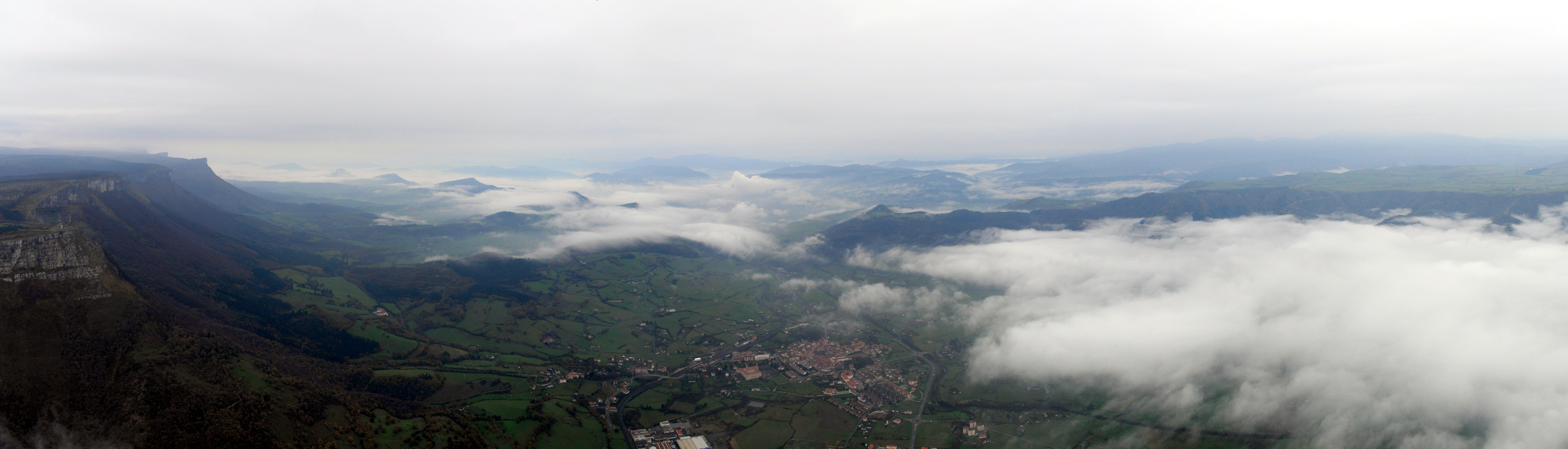 General view of Urduña (Biscay, Basque Country) and the surrounding valleys and mountains.